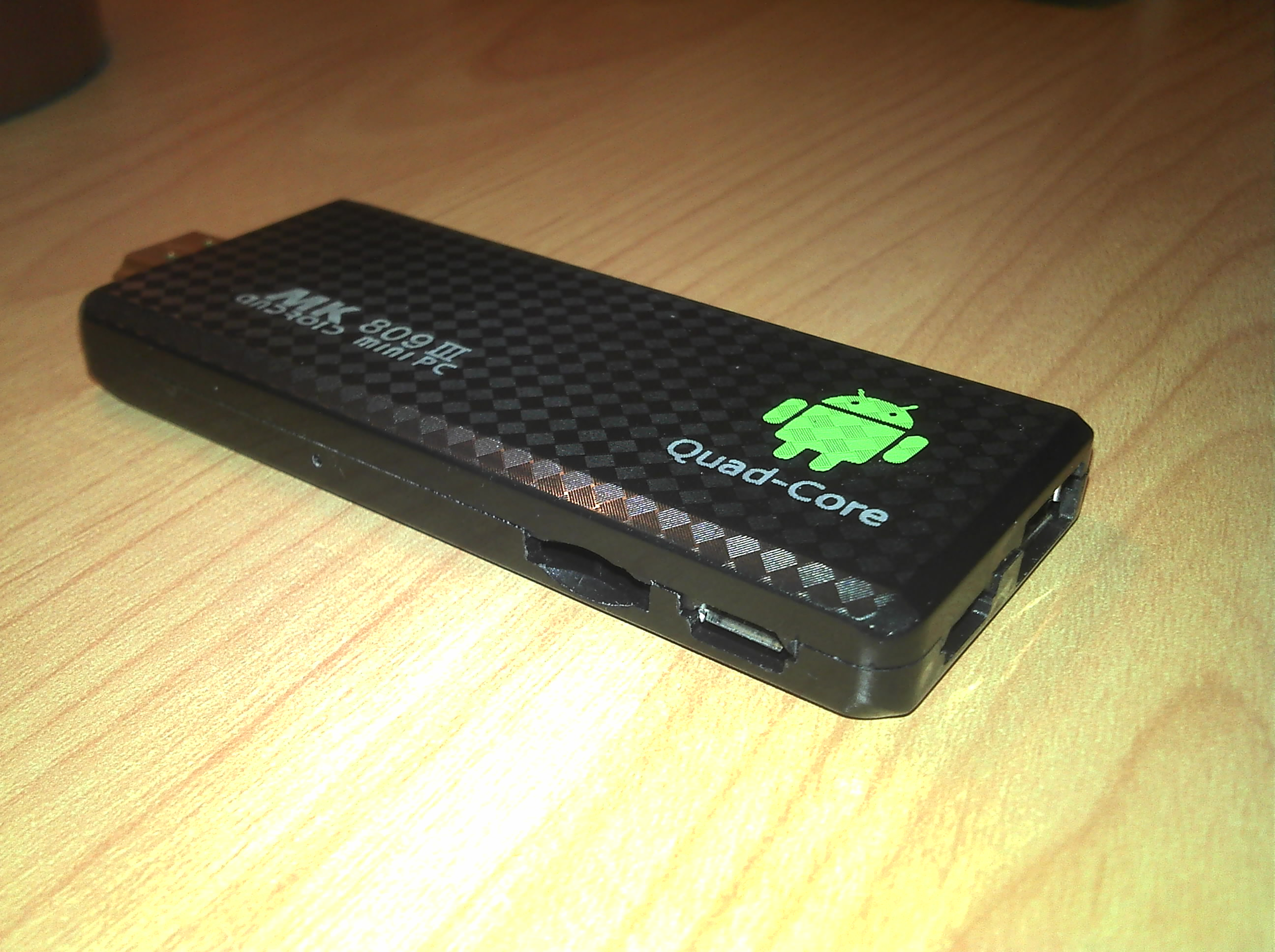 Originally produced as an Android Mini-PC TV-Stick, there is a range of Operating Systems to run on RK3188 ARM SoC devices such as this one. Despite the Android logo on the outside it also runs other Linux distributions. The specific model name found on the board inside is MK809III V1.0. This device was built in the 25th week of 2013 and the PCB revision dates 2013-06-06. Its characteristics are: Rockchip RK3188 ARMv7 SoC GEIL 2GB DDR3 RAM memory SK hynix 8GB NAND memory Active ACT8846 Voltage Regulator Broadcom AP6210 WIFI/BT Combo ITE IT66121 HDMI chip HAOYU HYM8563 RTC chip Blue LED (power on, customizable) from left to right in picture: 1 recovery button (paper clip hole on the side) 1 µSDHC card reader 1 USB2.0 OTG micro size connector (for peripheral or nand flash, see below) 1 USB2.0 micro size connector (for 5V 2A power connect in normal usage) 1 USB2.0 HOST full size connector (for peripheral) to flash the device: unplug every port of the device use a paper clip to push the recovery button and hold connect OTG port ONLY to a PC, wait a couple of seconds release recovery button, flash using your favorite software The device is very similar to Rikomagic MK802 IV or Radxa Rock devices, up to the extent that firmwares are interchangable. They are all built around the same RK3188 ARMv7 SoC. The Kernel can be customized by the end user, as leaked Rockchip Kernel sources versioned 3.0.36 may be found on Github. Some work is in progress to integrate support into mainline kernel tree. For more info see [1]